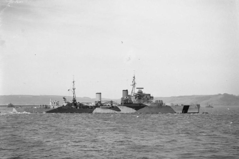 British light cruiser HMS MAURITIUS moored.